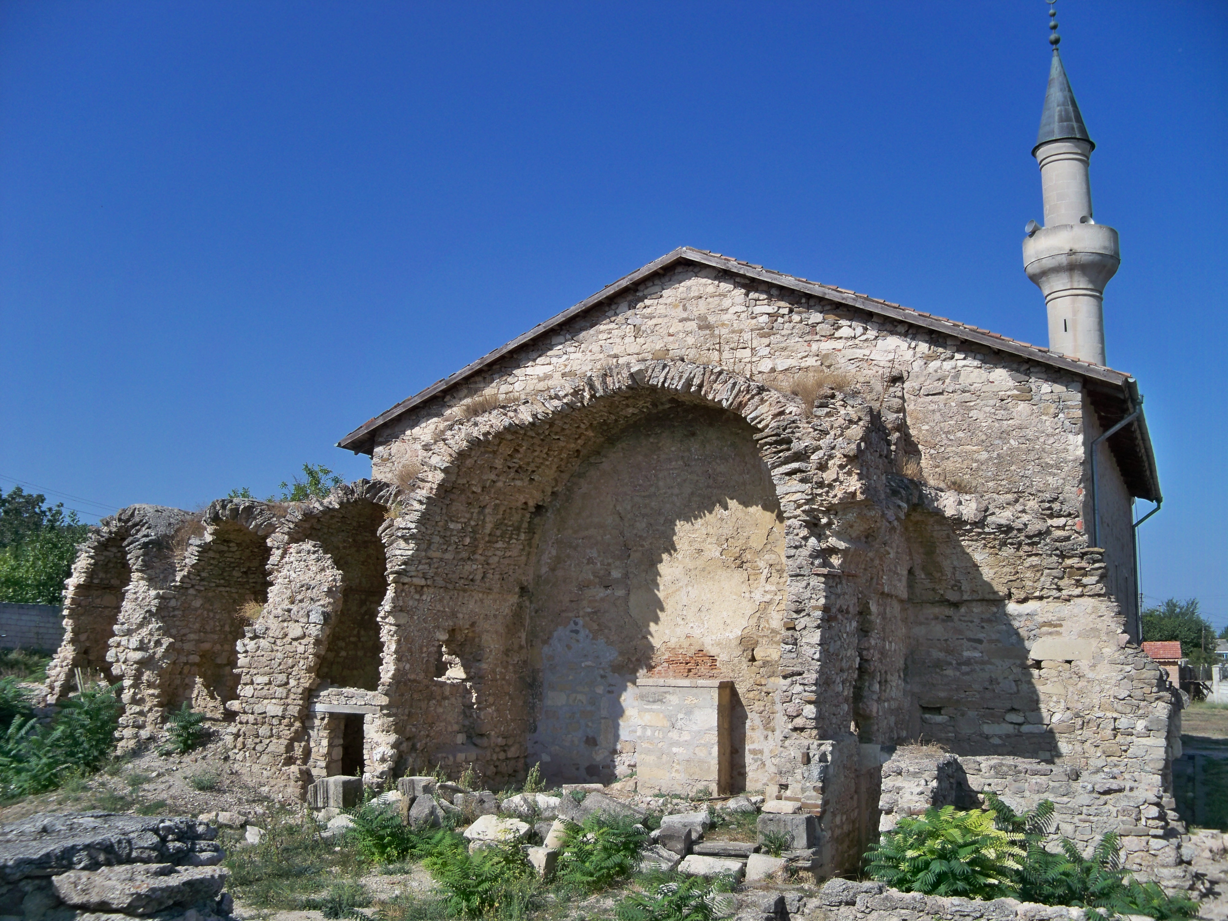 Ozbek Han Mosque, Staryi Krym, Crimea